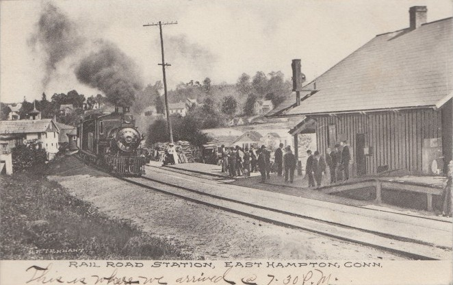 Picture from a postcard: East Hampton railroad station, East Hampton, postmarked August 1907